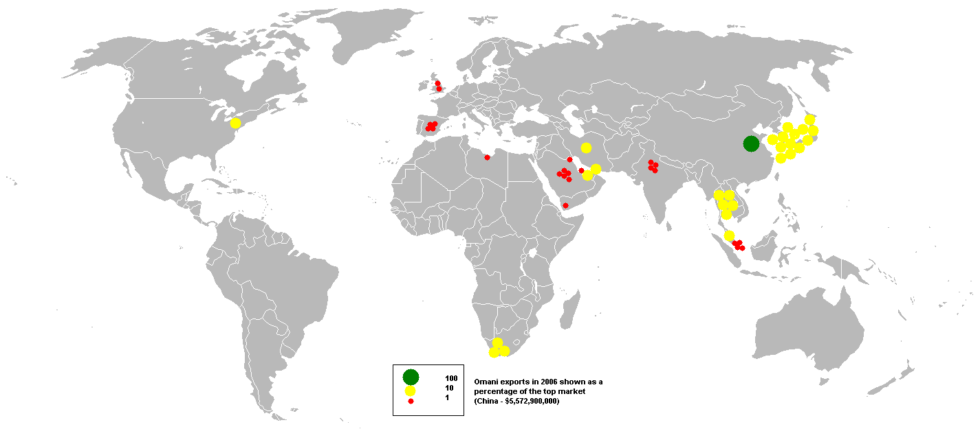 This bubble map shows the global distribution of Omani exports in 2006 as a percentage of the top market (China - $5,572,900,000). This map is consistent with incomplete set of data too as long as the top producer is known. It resolves the accessibility issues faced by colour-coded maps that may not be properly rendered in old computer screens. Data was extracted on 19th September 2007 from Based on :Image:BlankMap-World.png